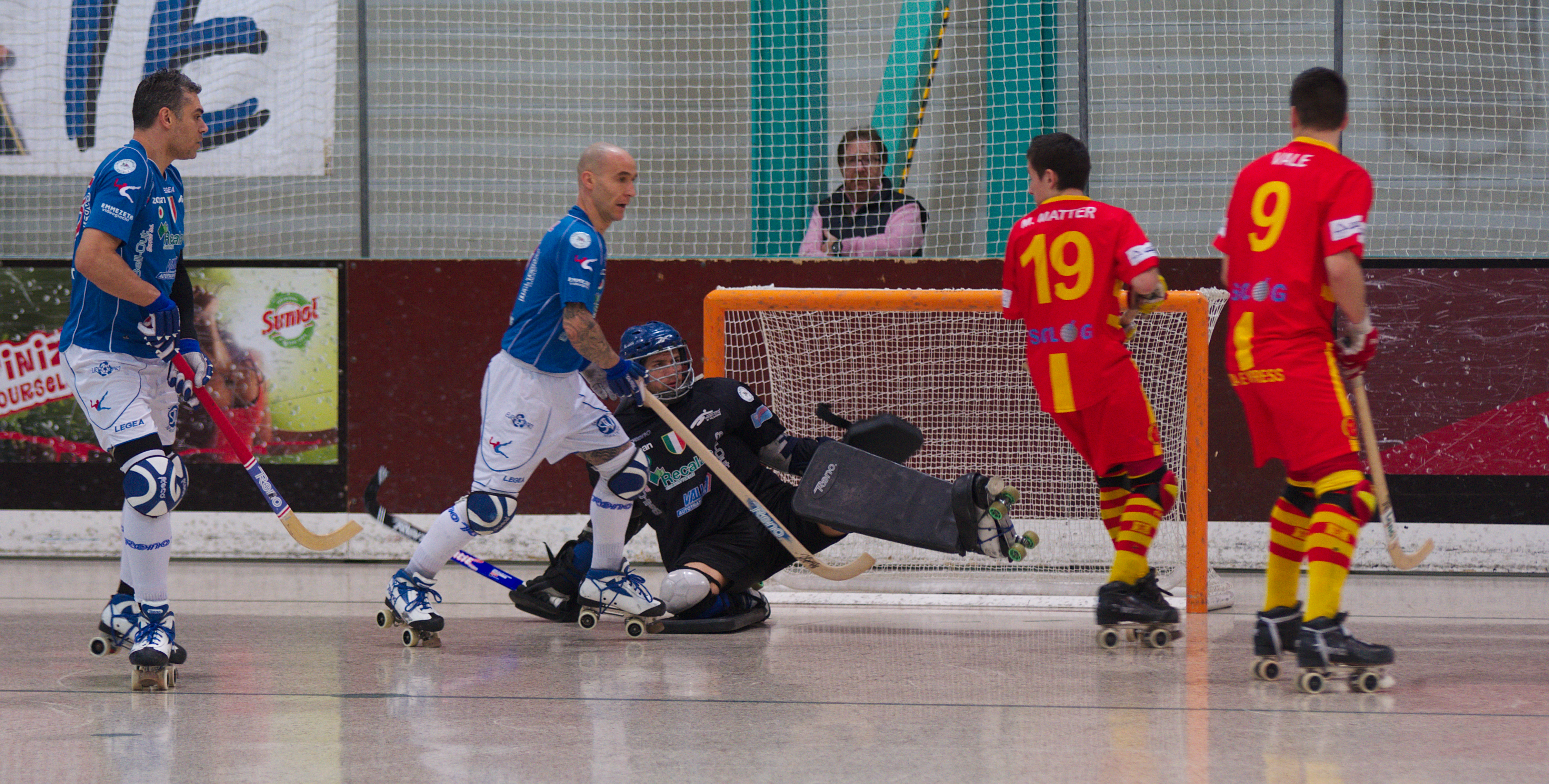 Rink-Hockey Euroleague 2012-2013 - Genève vs Hockey Valdagno